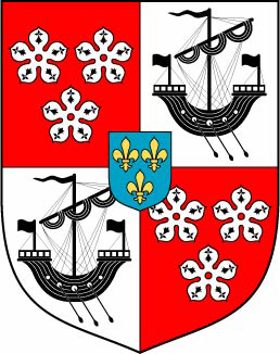 Arms of the Duke of Abercorn